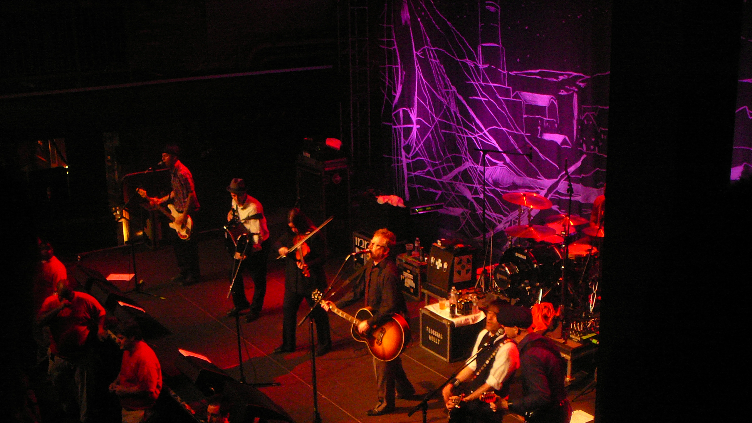 Flogging Molly performing live at Rams Head Live in Baltimore, MD